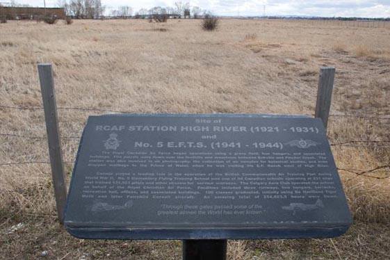 Site of High River Air Station (RCAF Station High River), Alberta, Canada